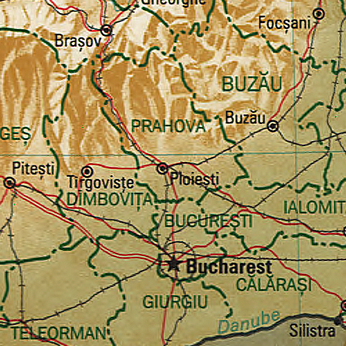 Map of Prahova County, Romania.